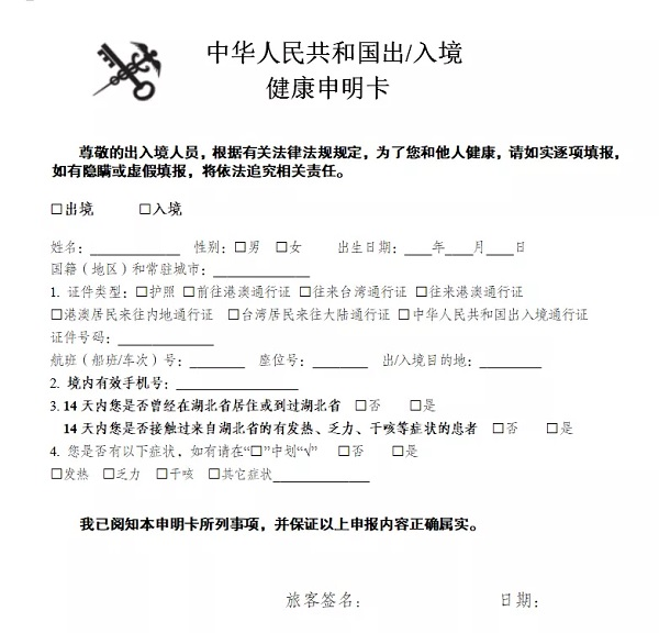 Health Declaration Card of China, which issued by General Administration of Customs. Since January 25, 2020, all travellers who exit/entry China should complete Health Declaration Card. 中文（中国大陆）: 中国海关签发的《中华人民共和国出/入境健康申明卡》。武汉肺炎事件后的2020年1月25日起，所有出入中国（内地/大陆）国境的旅客必须填写健康申明卡。